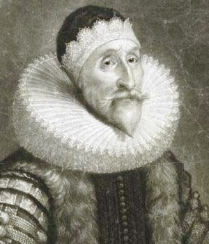 A portrait of Sir John Coke (5 March 1563 – 8 September 1644) of Derbyshire. Coke was the son of Richard and Mary Coke of Trusley, Derbyshire, England. After leaving the university he entered public life as a servant of William Cecil, Lord Burghley, afterwards becoming deputy-treasurer of the navy and then a commissioner of the navy, and being specially commended for his labours on behalf of naval administration. He became member of parliament for Warwick in 1621 and was knighted in 1624, afterwards representing the University of Cambridge. In the parliament of 1625 Coke acted as a secretary of state of Charles I. The mezzotint was based on a painting that is now in the Derby Museum and Art Gallery.